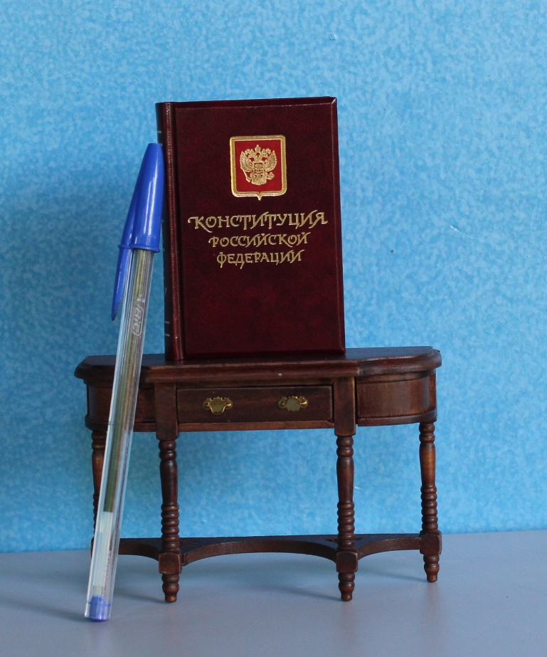 Constitution of the Russian Federation (in miniature book)